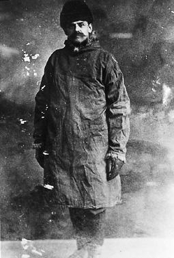 Frank Patrick Armstrong (c1859-1923), steamboat captain of Golden, BC, ca 1900.